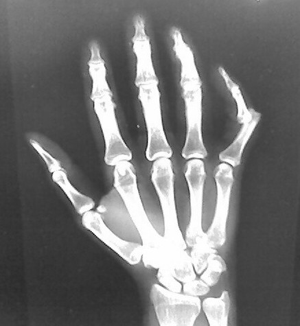 X-ray of right pinkie finger dislocation